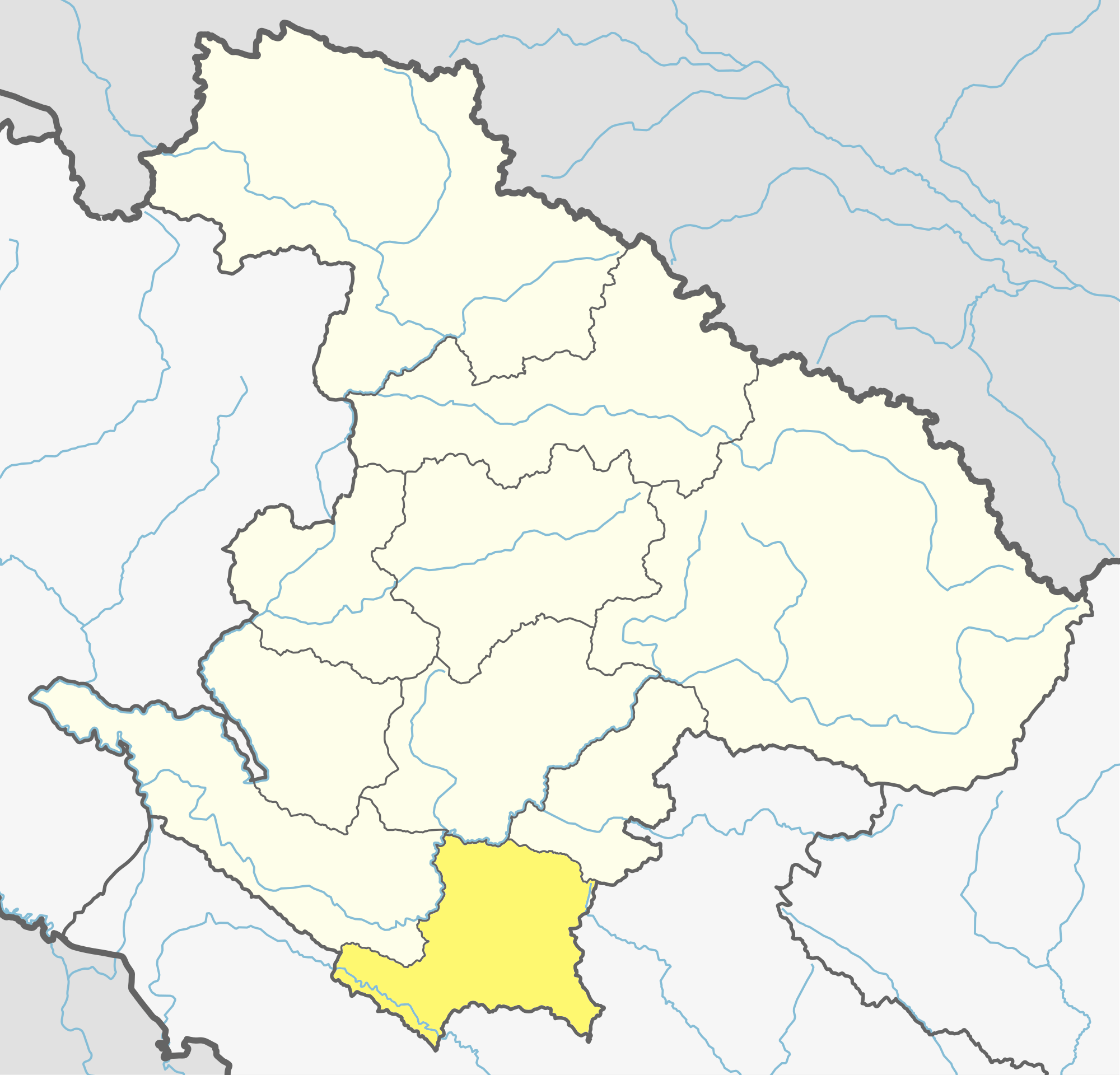 Salyan District